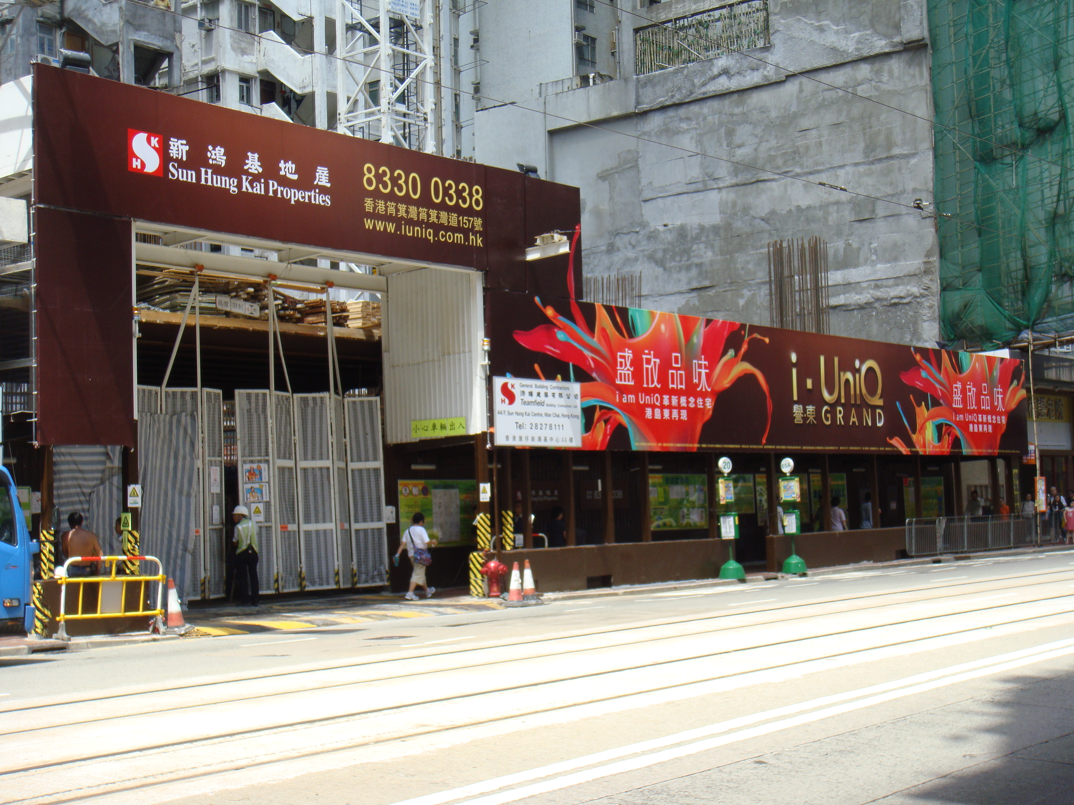 i.UNIQ Grand's outlook and hoarding